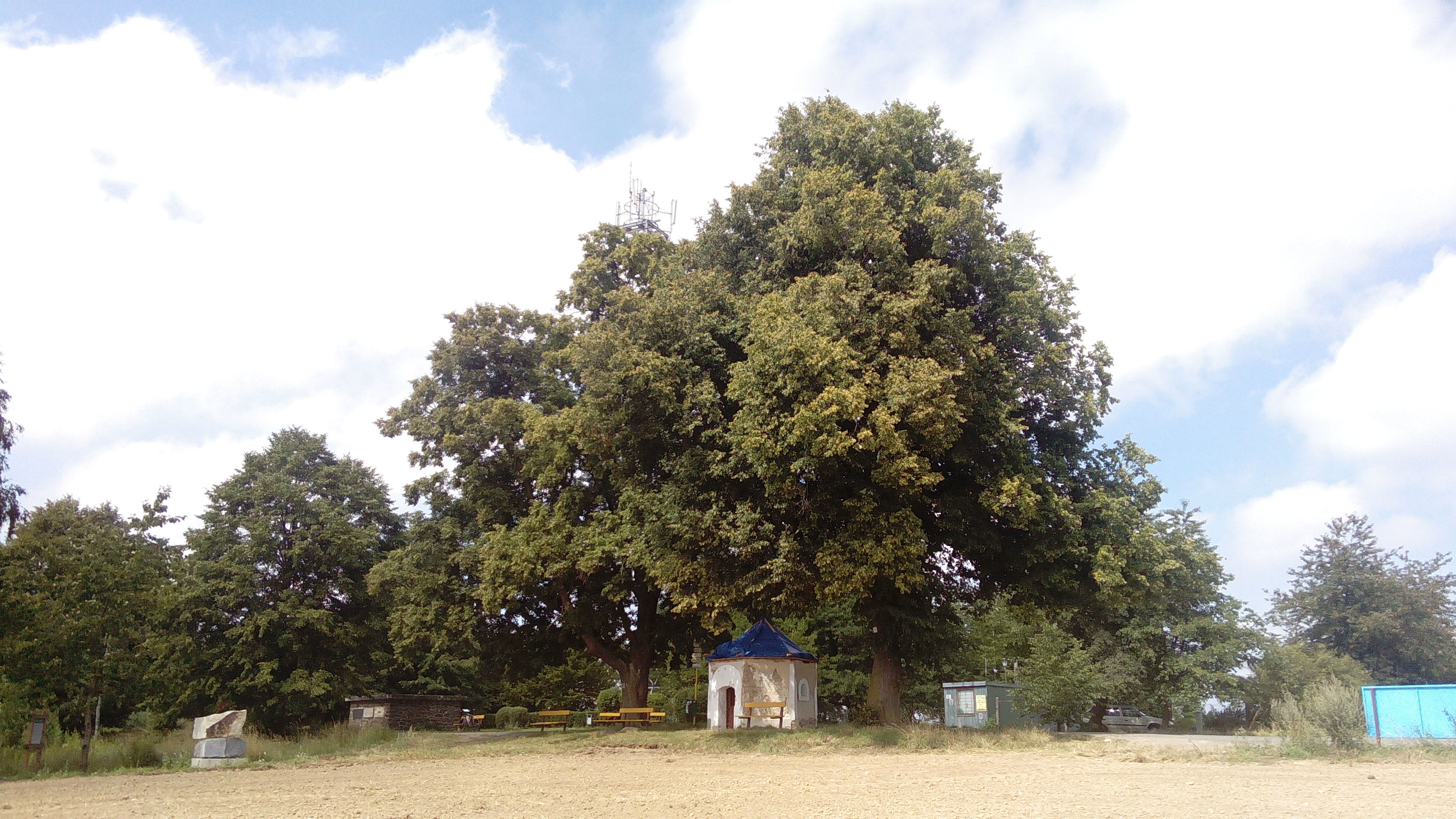 Baldovské návrší and baroque chapel standing there. Nearby Domažlice, Plzeň Region, Czech Republic.